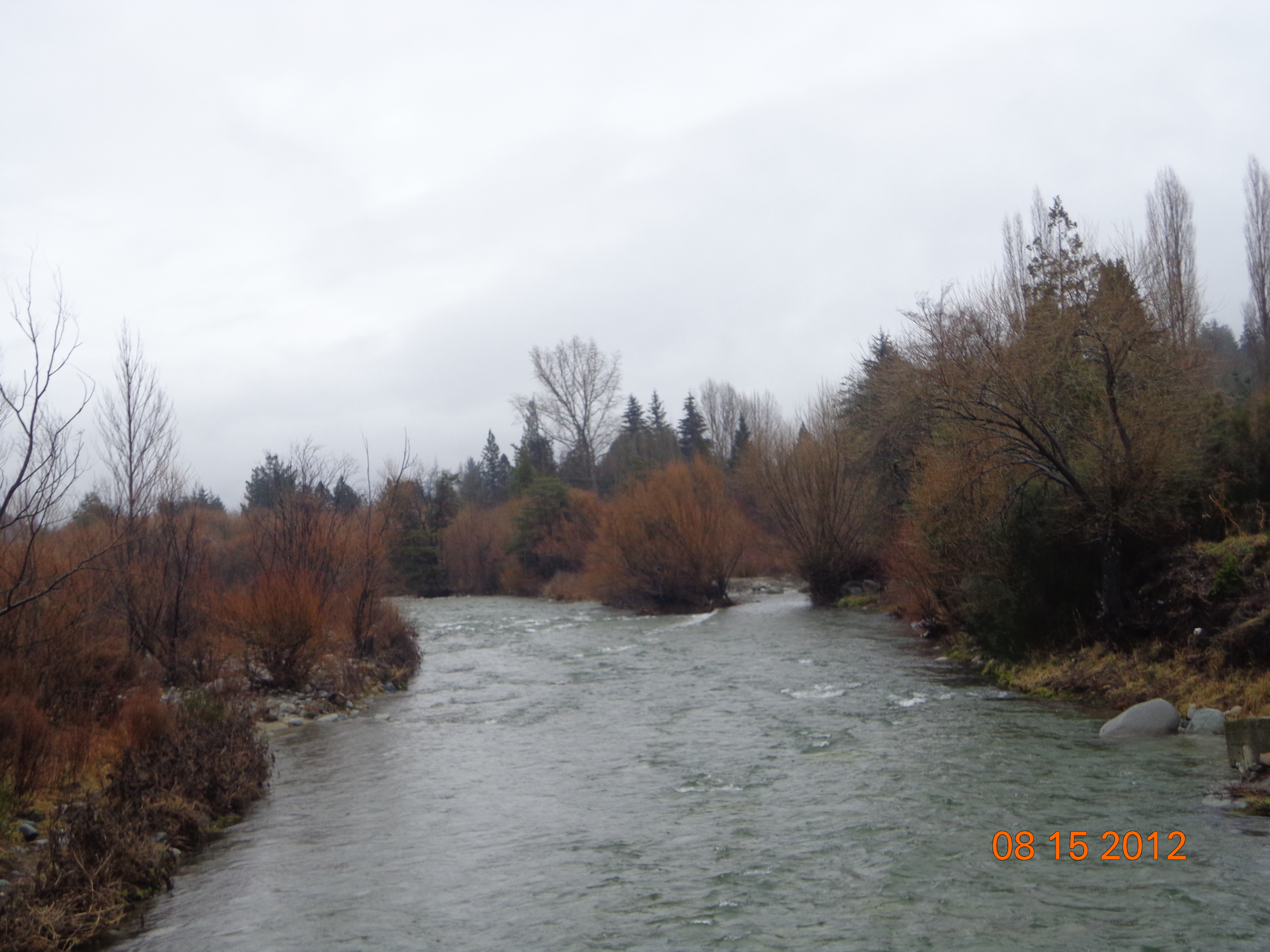 Río Quemquemtreu, El Bolsón, Río Negro, Argentina.